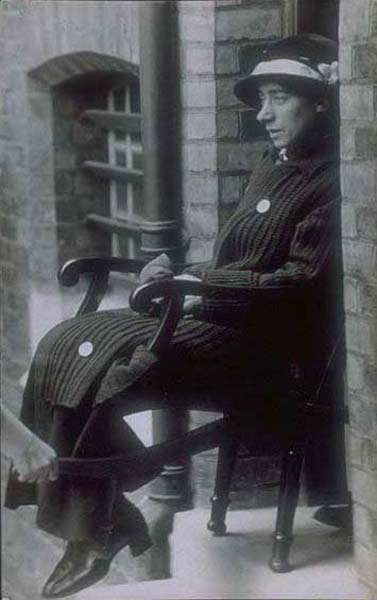 Clara Lambert surveillance picture of her as a militant suffragette c. 1913